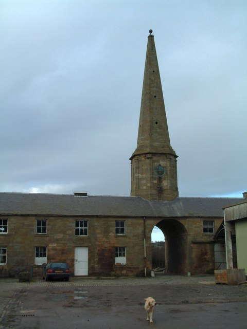 Farm with a steeple. There are not many farms with an impressive steeple like this one at Tarvit Farm. It is said to have been built to give the owners, who lived in the mansion of Tarvit House nearby, something more attractive to see from their windows than typical Fife farm buildings.